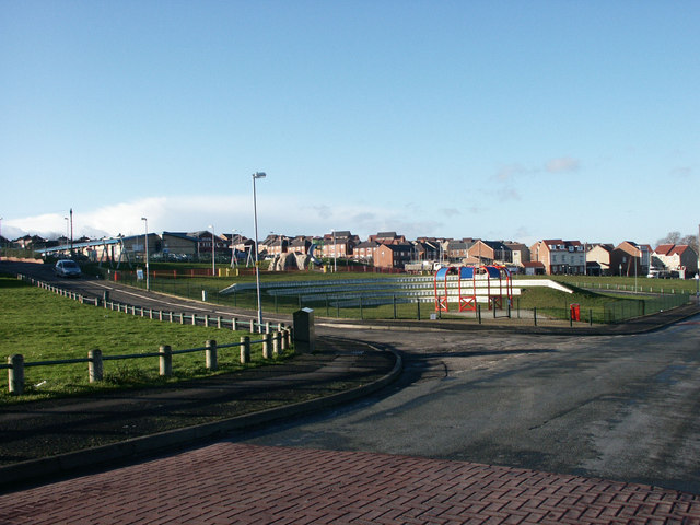 Amphitheatre An outdoors Amphitheatre and children's playground. In the centre of the Kendray estate.